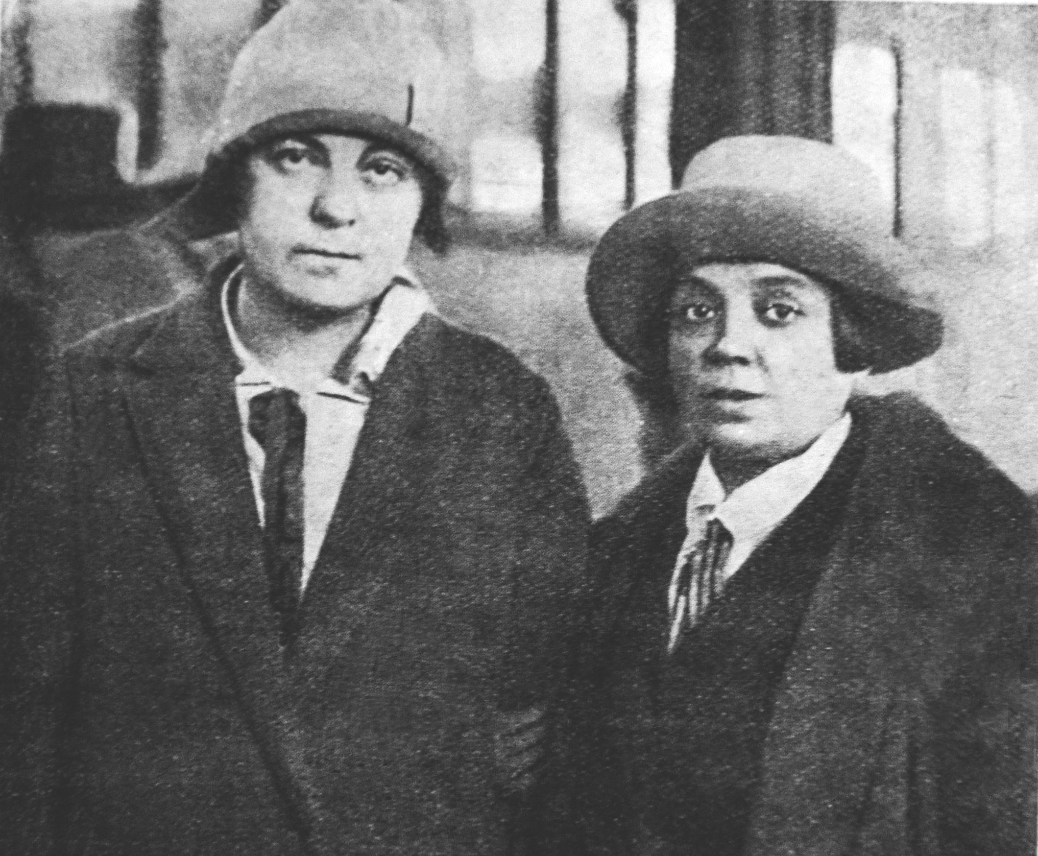 Lidiia Seifullina and Olga Kameneva 1927